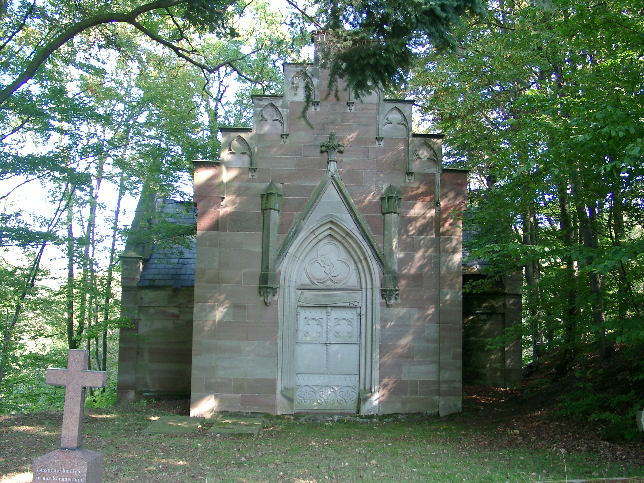 Mausoleum of the von Wangenheim familie in Waake